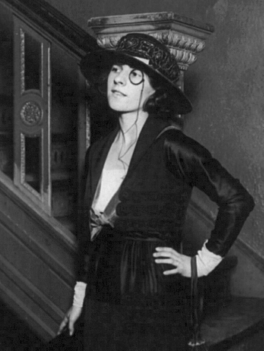 American actress and screenwriter